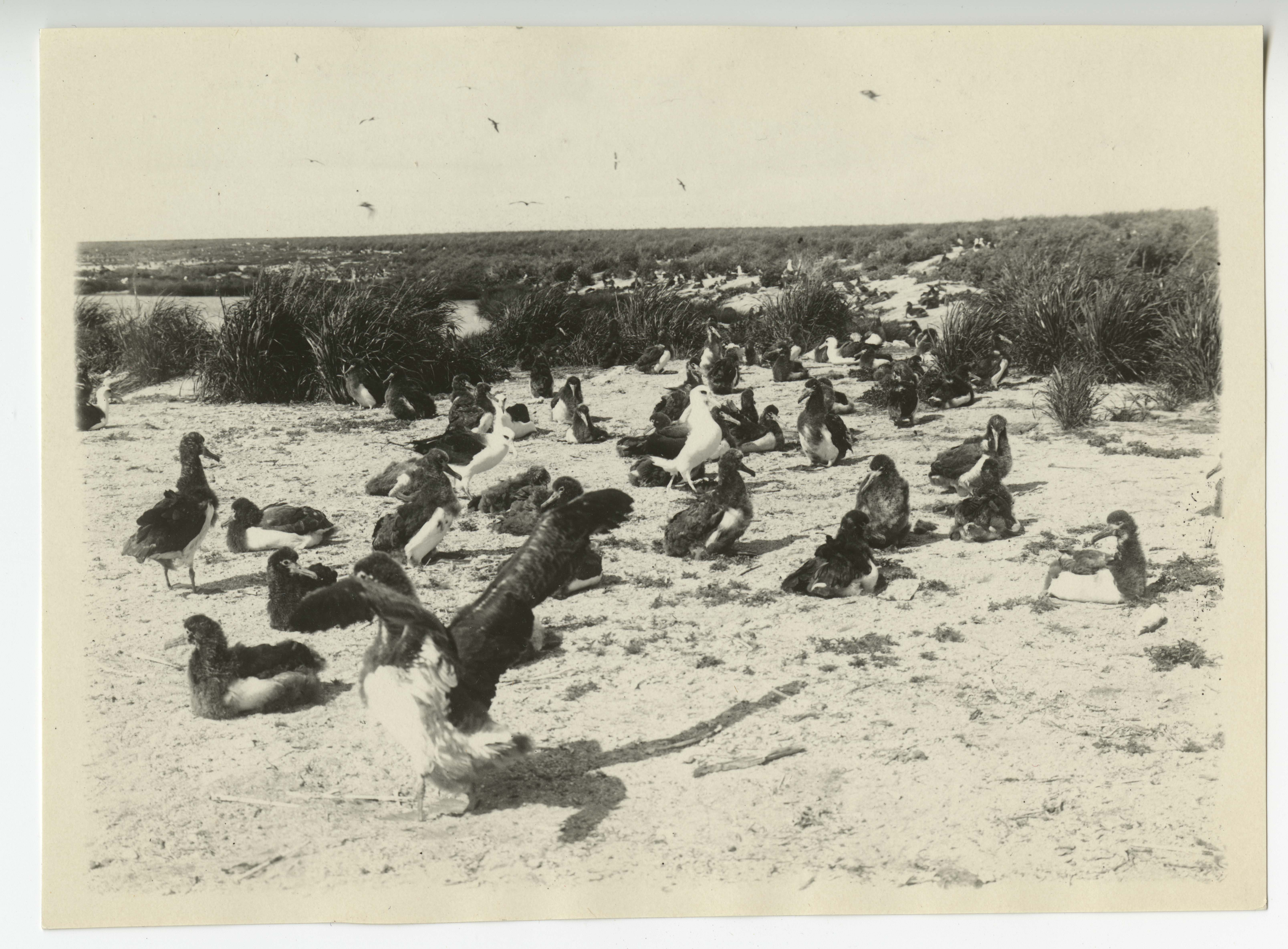 Creator: Unknown Local number: SIA2011-0839 Summary: RU 007006, Box 142, Folder 3; View near pond, Laysan Island, 1902. Dates: 1902 Repository: Smithsonian Institution Archives Related blog post: Alexander Wetmore Series View more collections from the Smithsonian Institution.